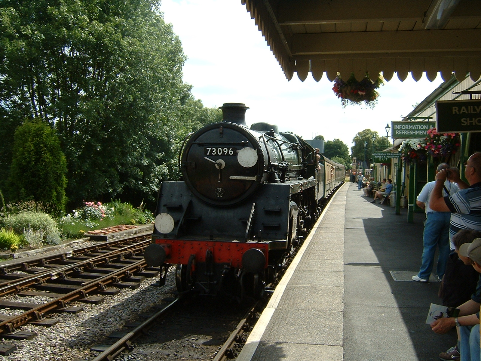 Standard Class 5MT 4-6-0 Loco 73096 arriving at Alton Station